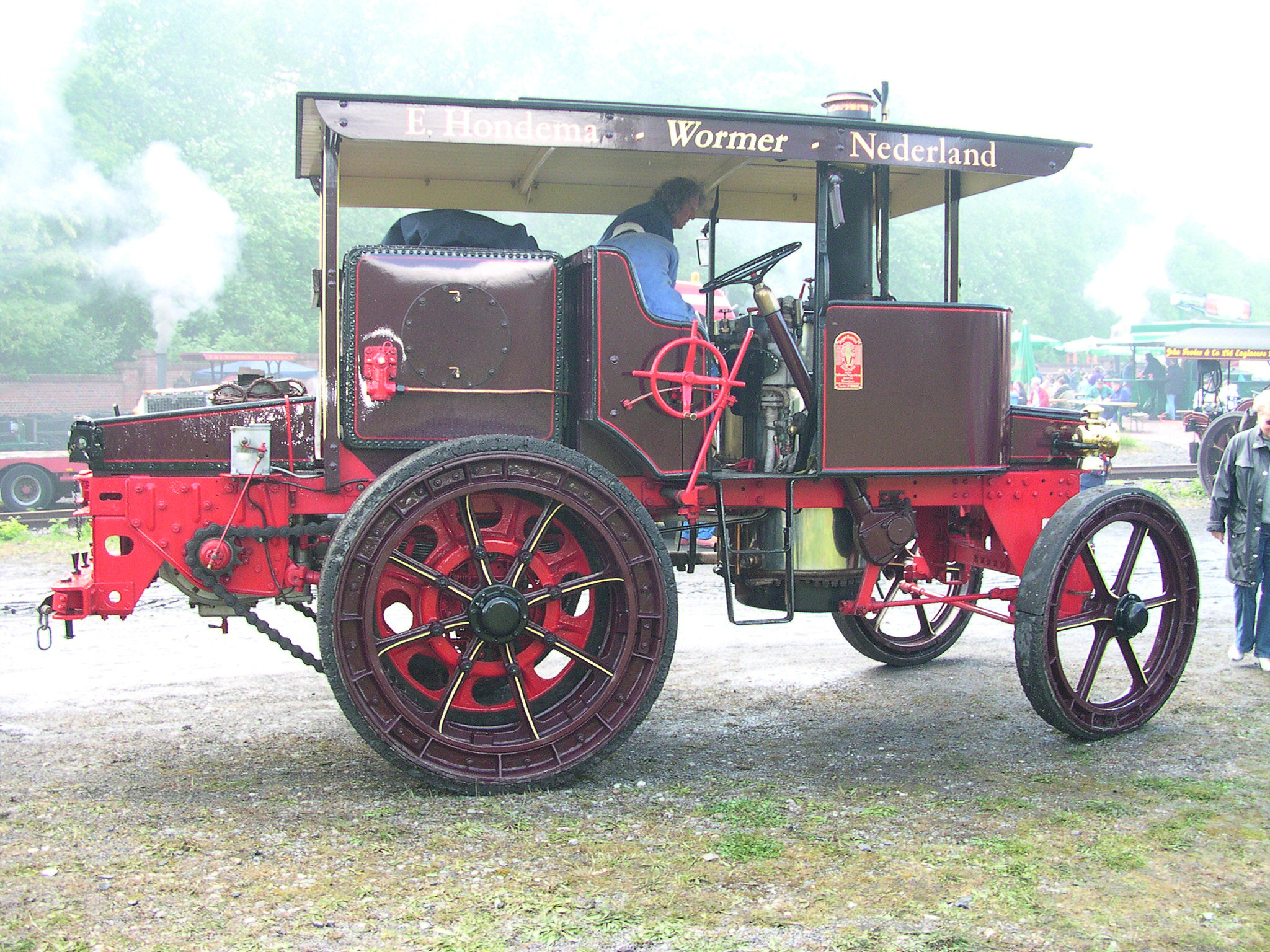 5th steam festival in Bochum, Germany 2007. Sentinel traction machine “Elephant”, built 1924